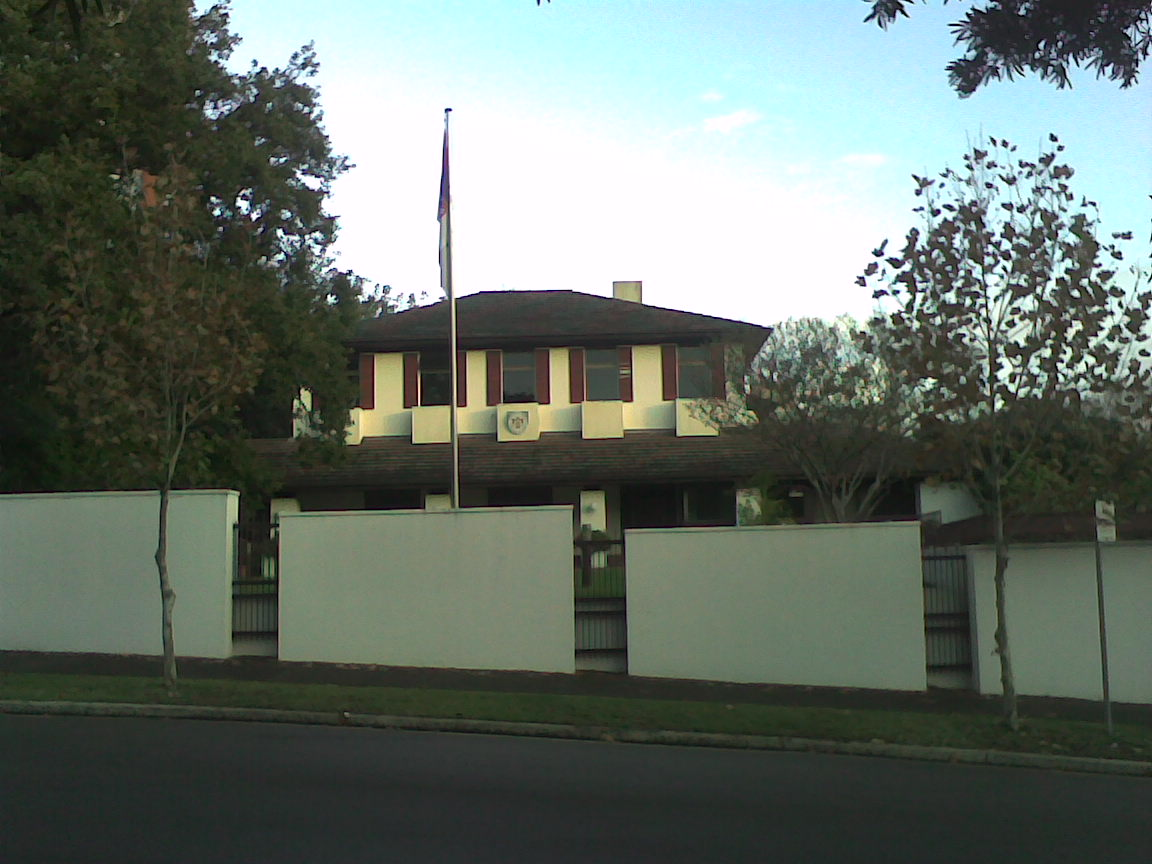 Serbian Consulate General in Sydney